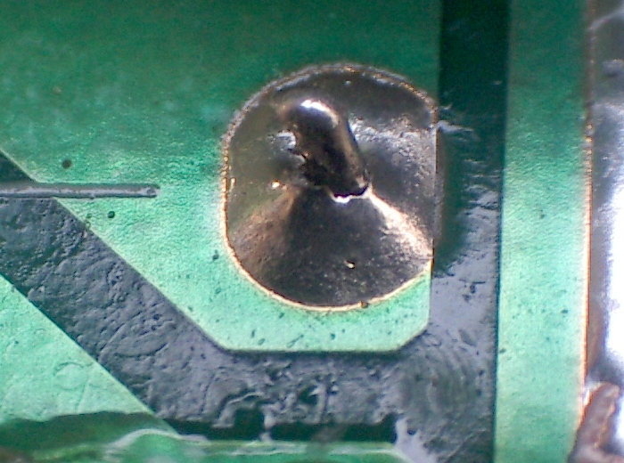 a could solder joint